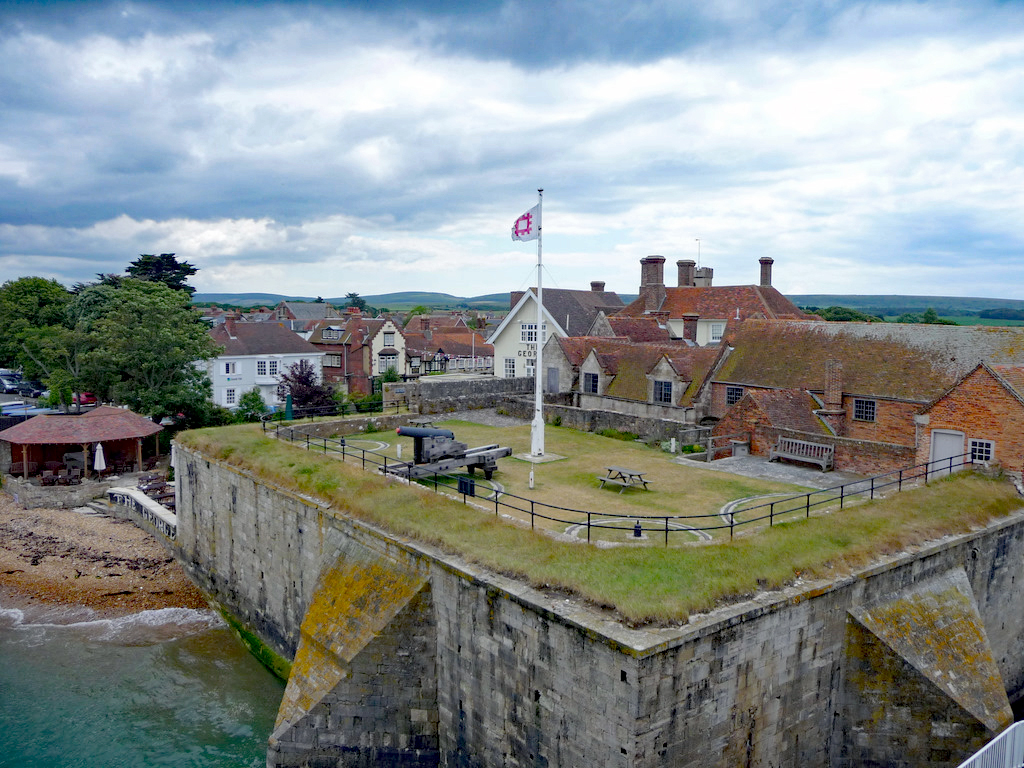 Yarmouth Castle, Isle of Wight Yarmouth Castle as seen from the Wightlink ferry.